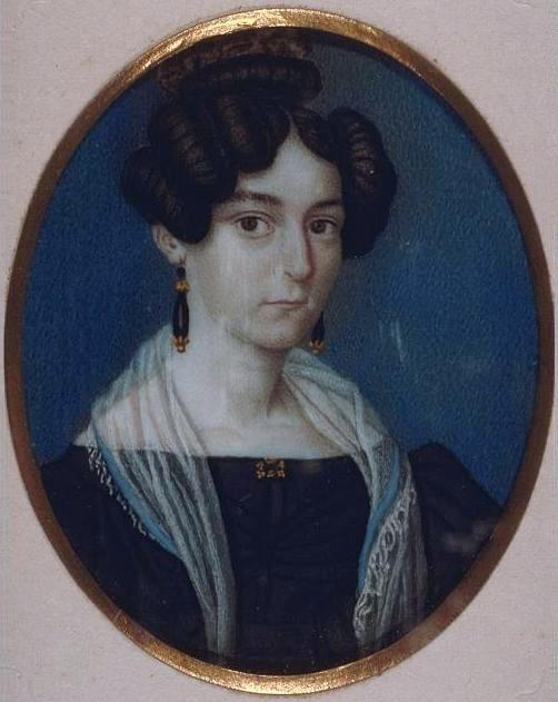 Portrait of Marie-Louise Josephte Harwood (1803-1869)